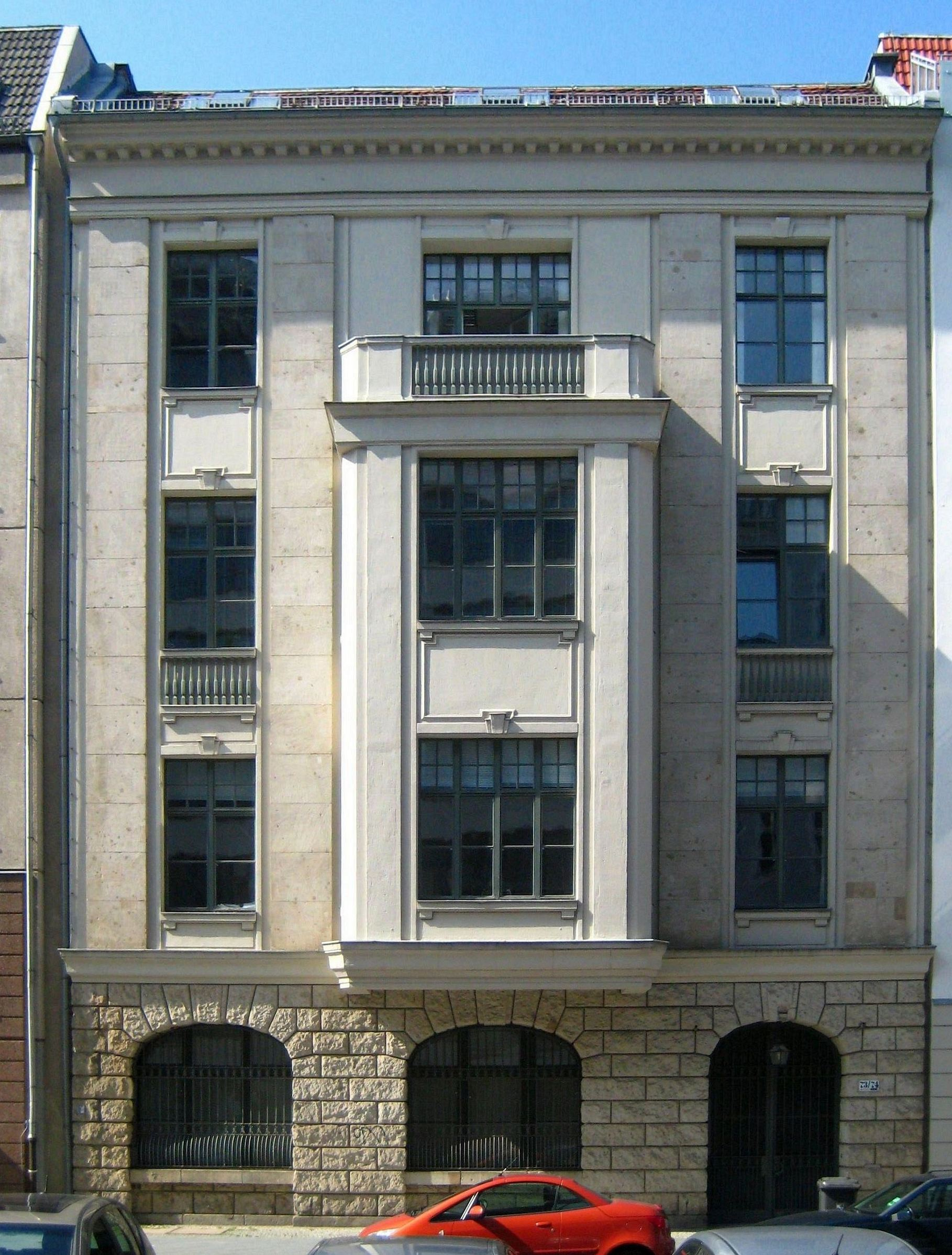 Residential and commercial building at Kronenstraße No. 73-74 in Berlin-Mitte, built around 1910. Office rooms and apartments are located above the ground floor which is reserved for a store. The main rooms of the upper floors are accentuated by bay windows or the balcony. Typical for commercial buildings of the pre-WWI era is the austere design of the facade with minimal decorative elements. In the interior, the original main staircase with a wrought-iron handrail has been preserved. The building is a historic landmark.